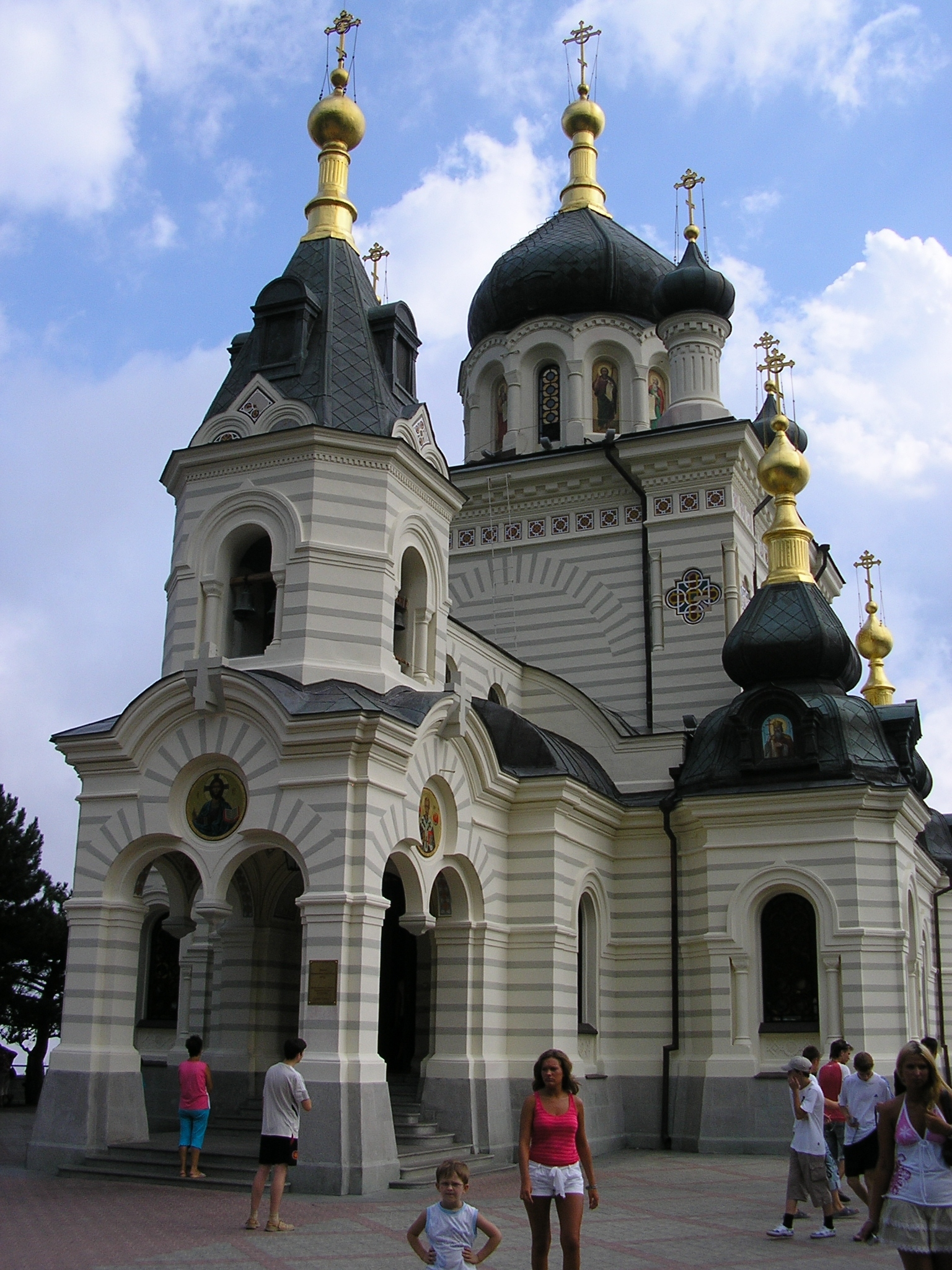 Church of Resurrection of Christ in Foros, Crimea